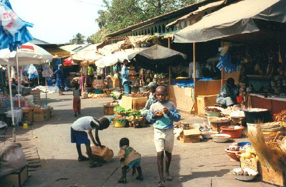 Banjul Albert market